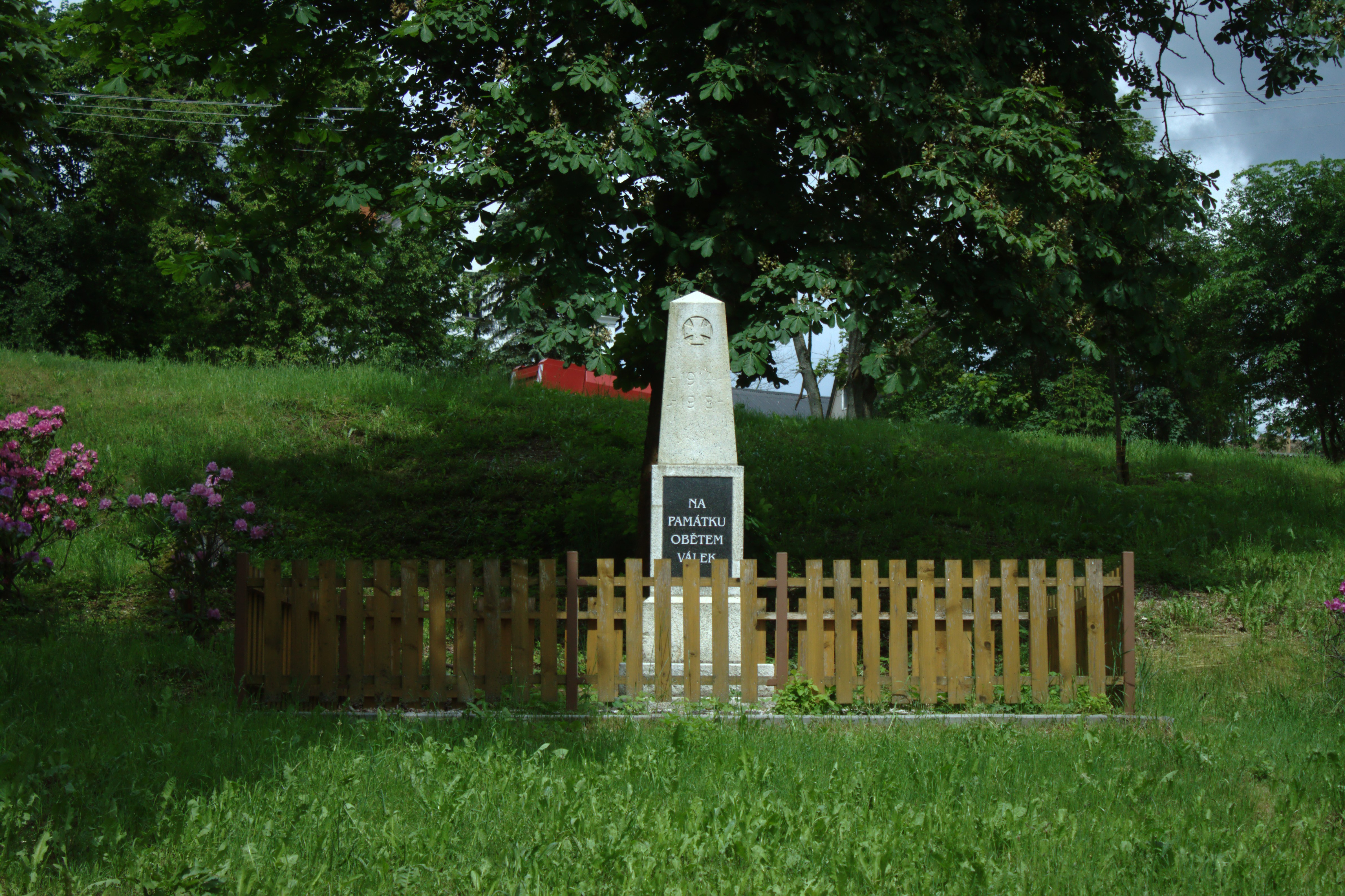 A WWI monument in Hostíčkov, near the main common